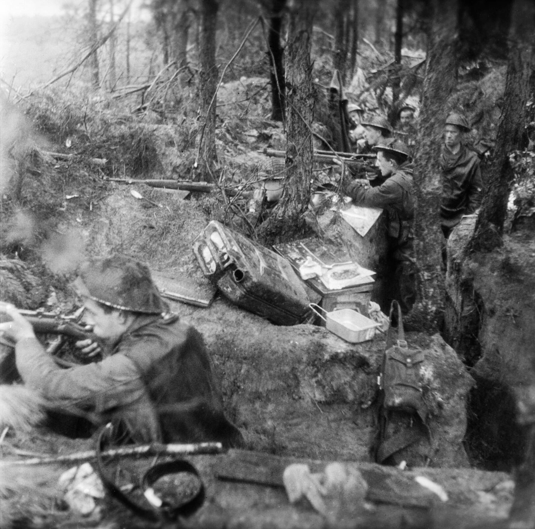 Troops from the 1st Battalion, South Lancashire Regiment man trenches in the front line in Holland, 25 November 1944. Troops from the 1st South Lancashire Regiment man trenches in the front line in Holland, 25 November 1944.